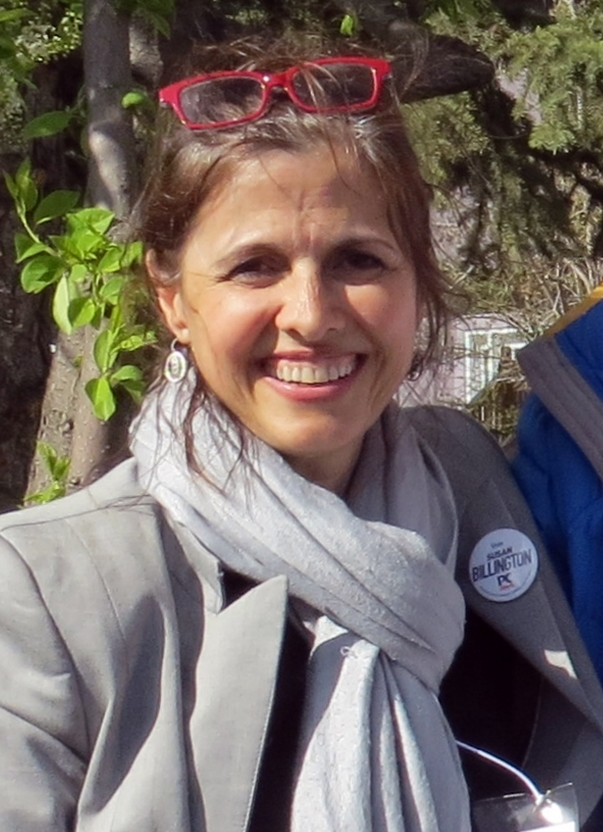 Jim Hawkes is a former Canadian politician. He served as a member of the Canadian Parliament for Calgary West from 1979–1993. He also served as the Chief Government Whip inside the House of Commons from 1988 to 1993. His daughter, Terri Hawkes, is an actress and author. She has performed numerous voice roles for cartoon characters including Care Bears and Sailor Moon.